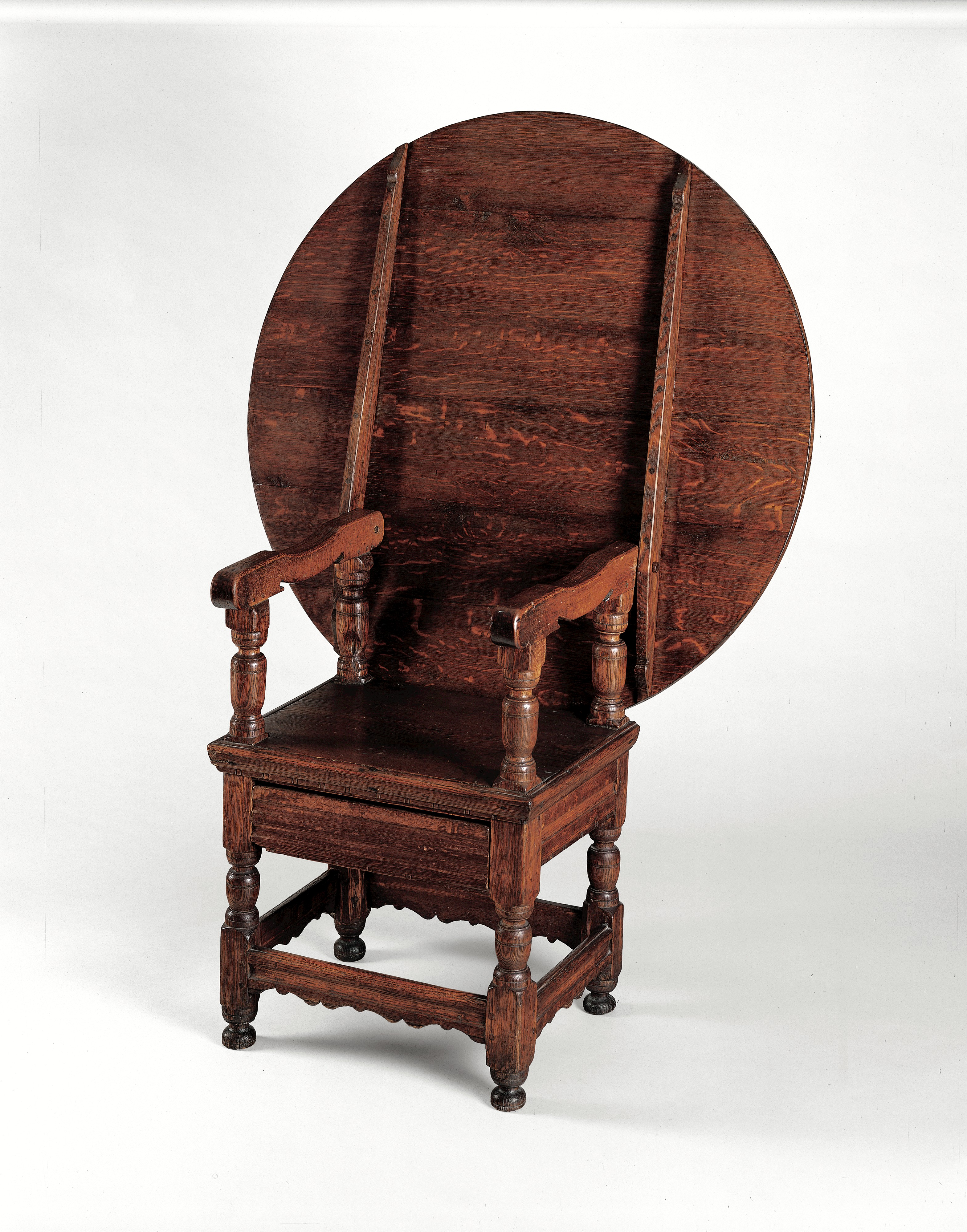 American; Chair table; Furniture